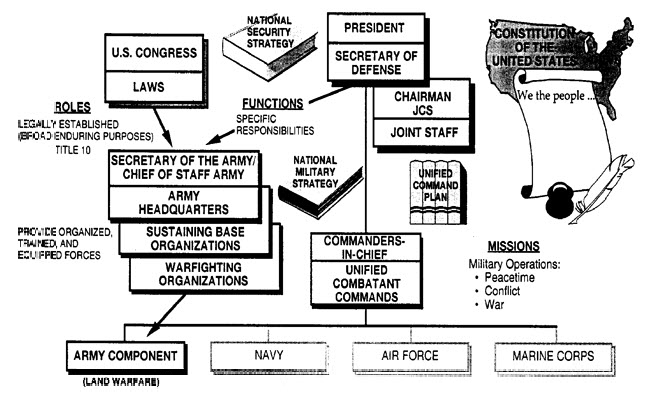 Figure 1-1: Army Organizations Execute Specific Functions and Assigned Missions